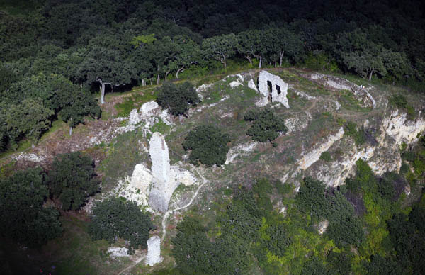 Csővár castle, Hungary, aerial photography This is a photo of a monument in Hungary, Identifier: 6958